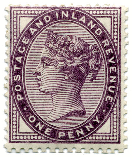 Scan of United Kingdom 1-penny stamp of 1881 (16-dot version)